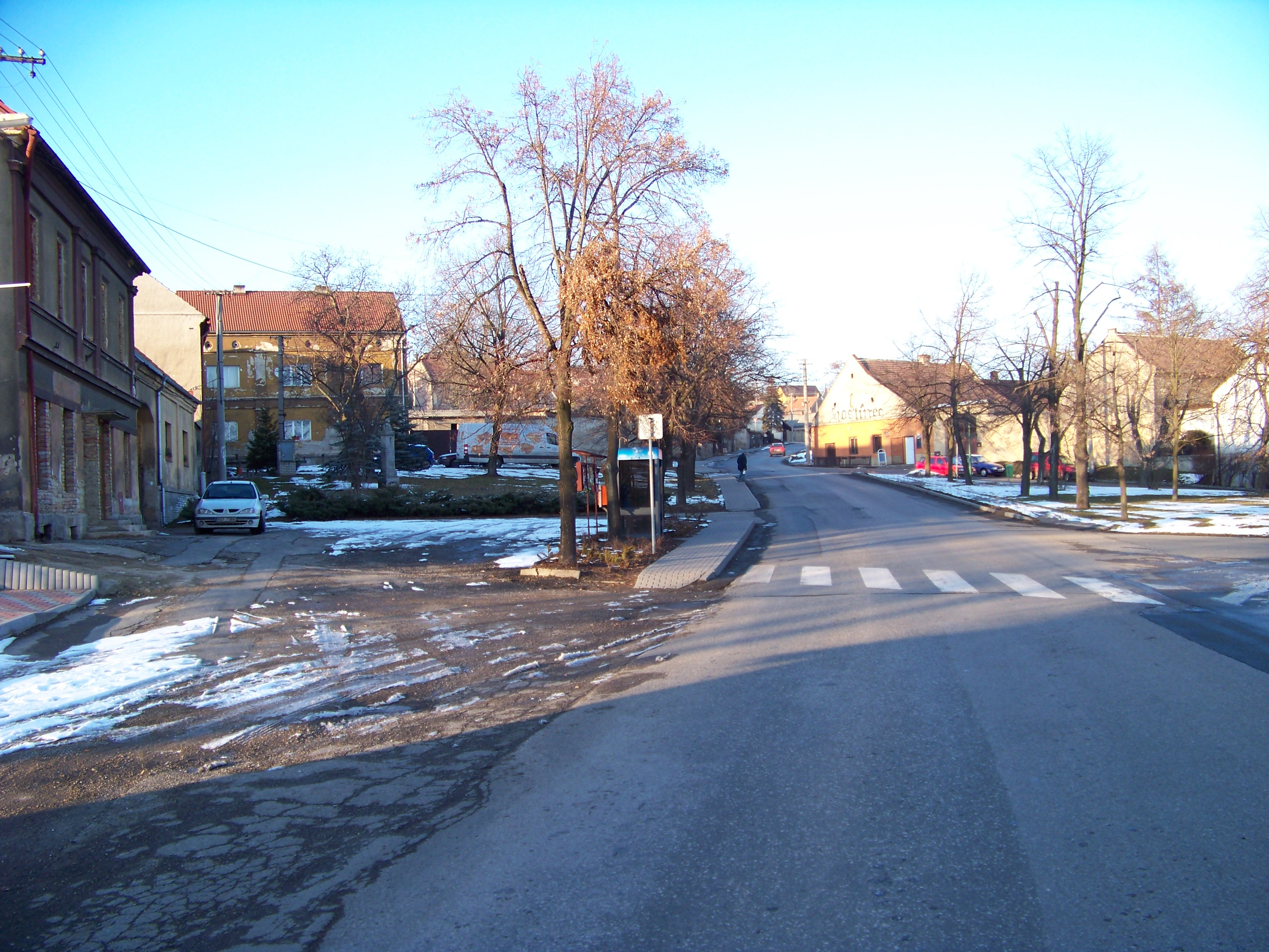 Třebusice, Kladno District, Central Bohemian Region, the Czech Republic. A common.